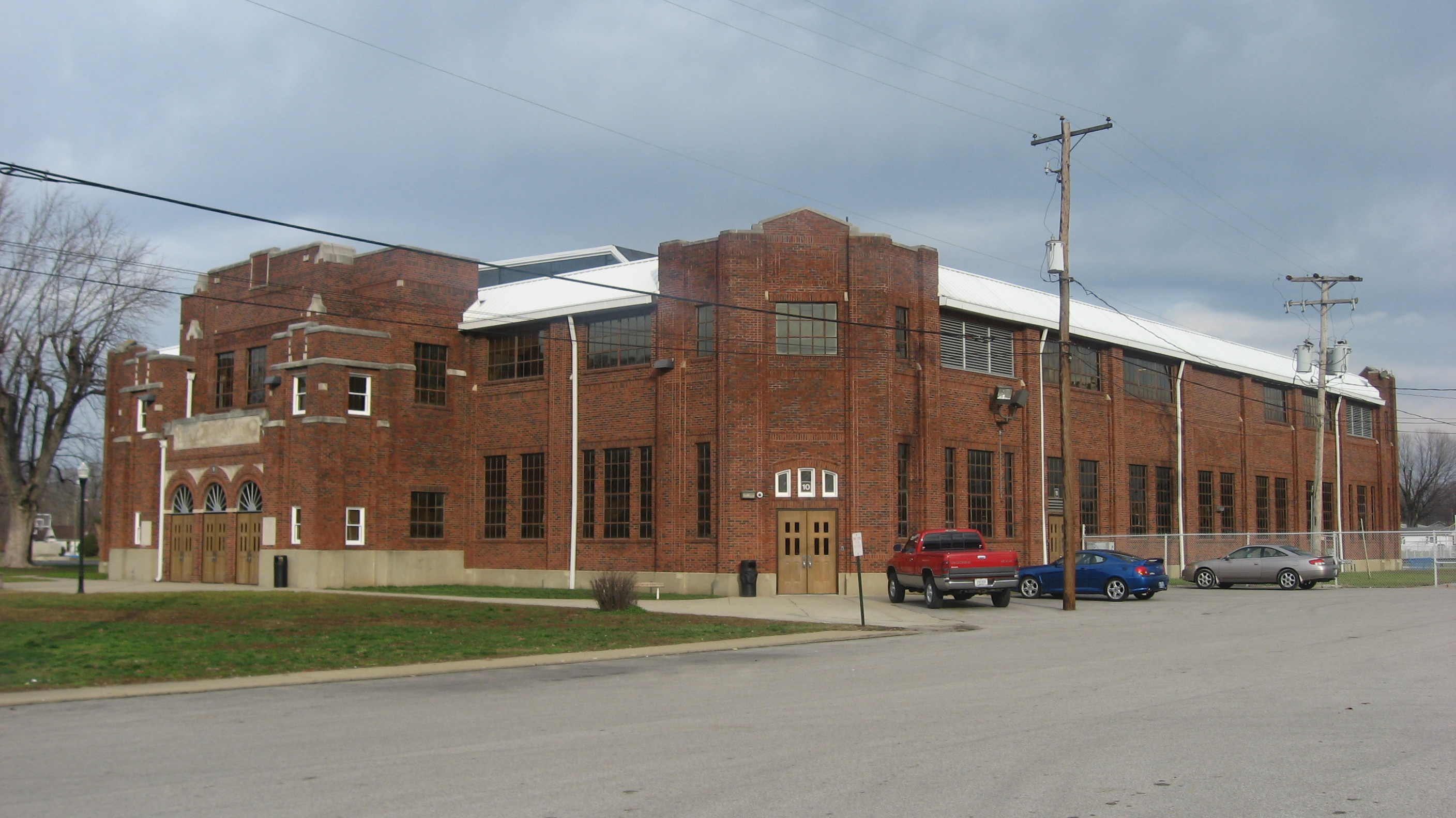 Front and southern side of the Martinsville High School Gymnasium, located at 759 S. Main Street in Martinsville, Indiana, United States. Built in 1923, it is listed on the National Register of Historic Places.